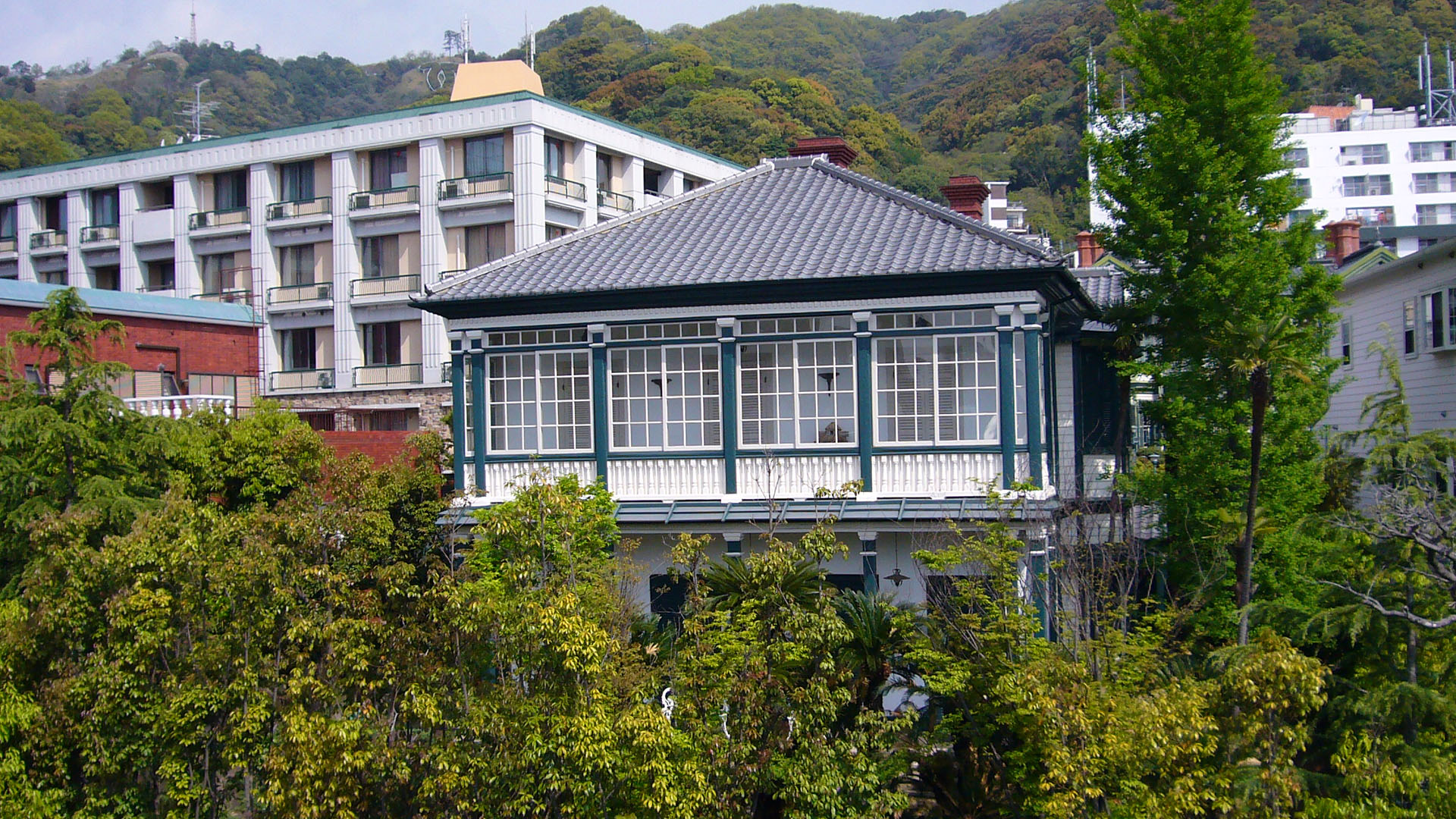 Old Catherine Andersen house in Kobe, Japan